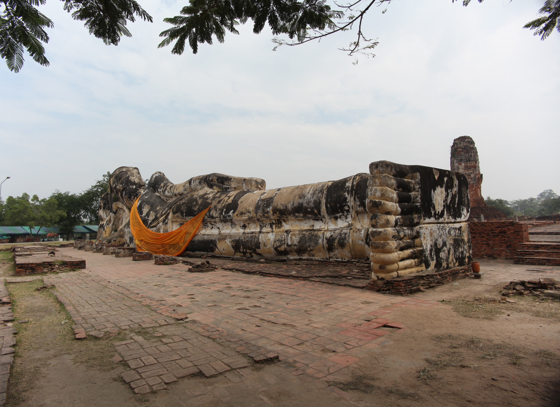 Reclining buddha in Ayutthaya Historic Park